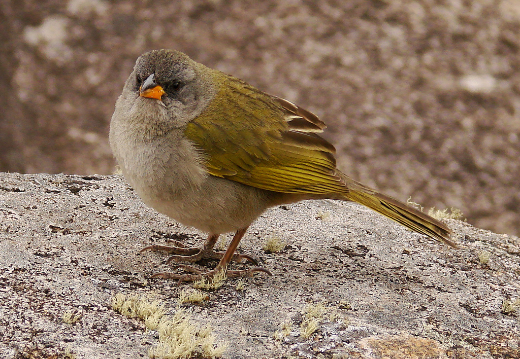 Great-Pampa-Finch. Photo by André Roviralta Dias Baptista, taken near the Prateleiras Summit, near 2.500 m above sea level, on the highlands of Itatiaia National Park, Brazil. To see my gallery go to